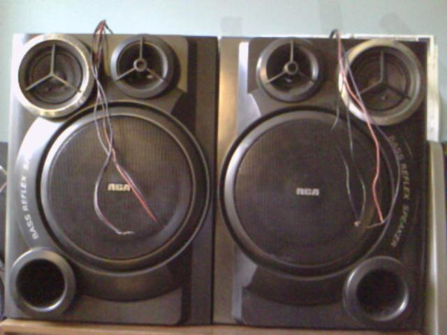 2 way speakers